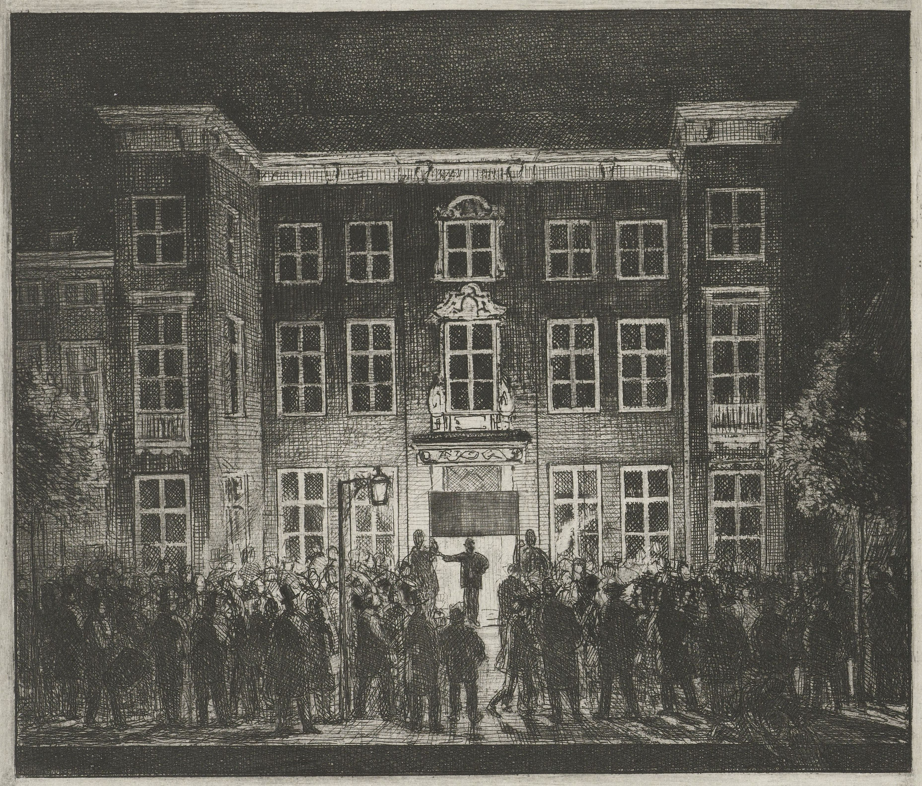 Bijeenkomst bij Delftsche academie, 30 juni 1864